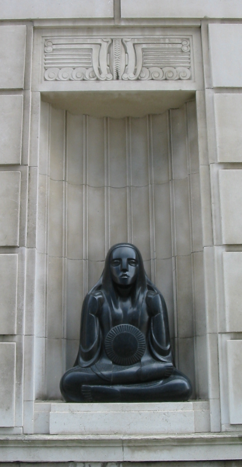 George's Dock Ventilation and Control Station, Pier Head, Liverpool, England. Offices and ventilation shaft for the Queensway Tunnel. Architect Herbert James Rowse, 1932.